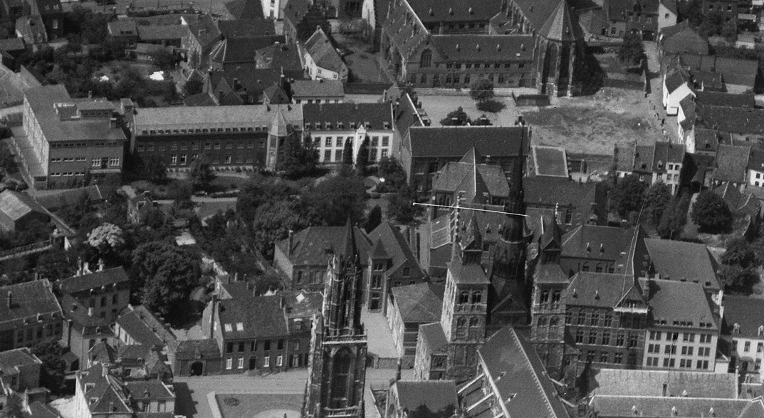 Detail of aerial photograph of Maastricht, The Netherlands, 1937